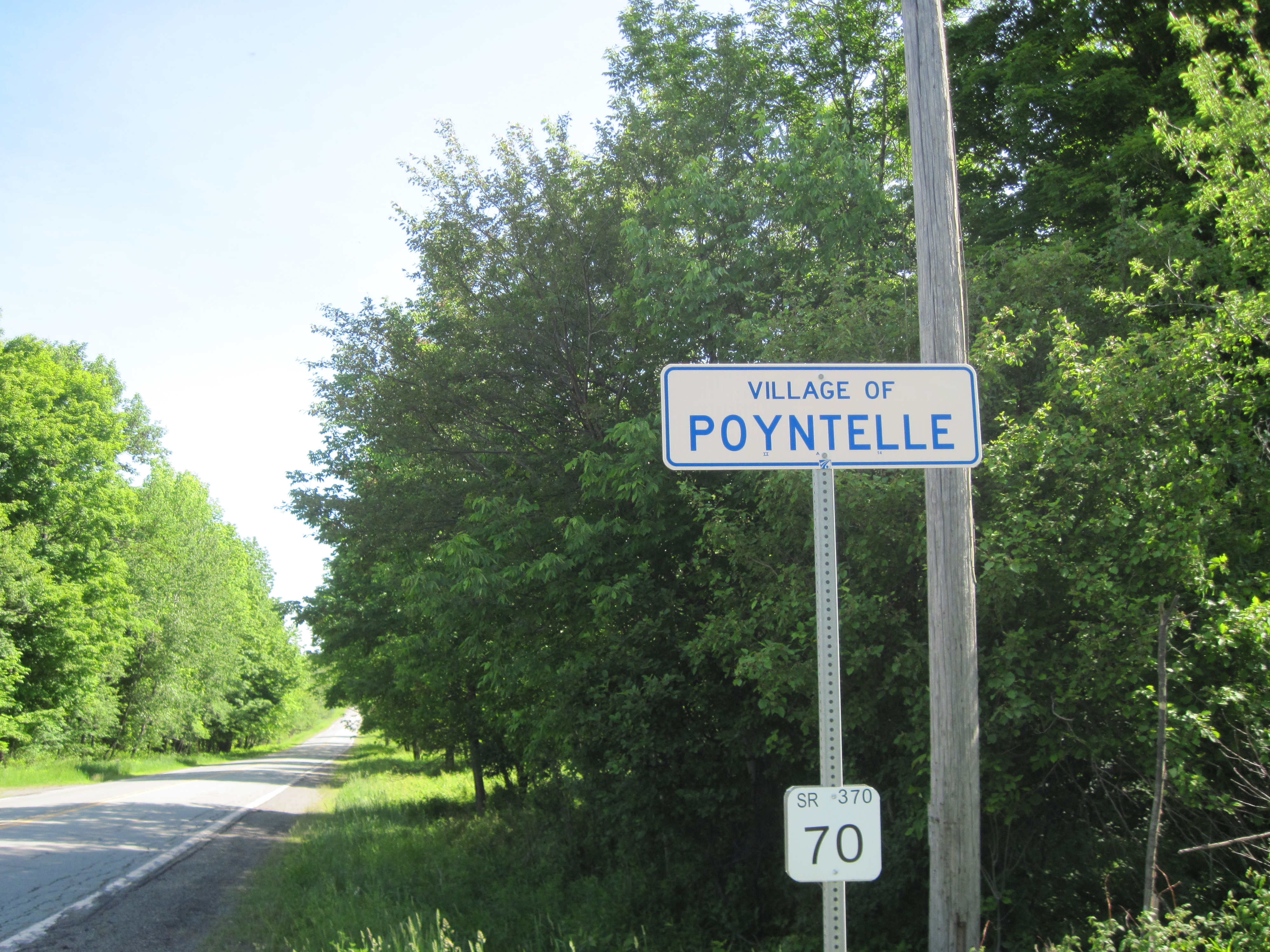 An image of one of the two Pennsylvania Department of Transportation (PennDOT) signs for the Village of Poyntelle, Pennsylvania, located along Crosstown Highway (PA-370).